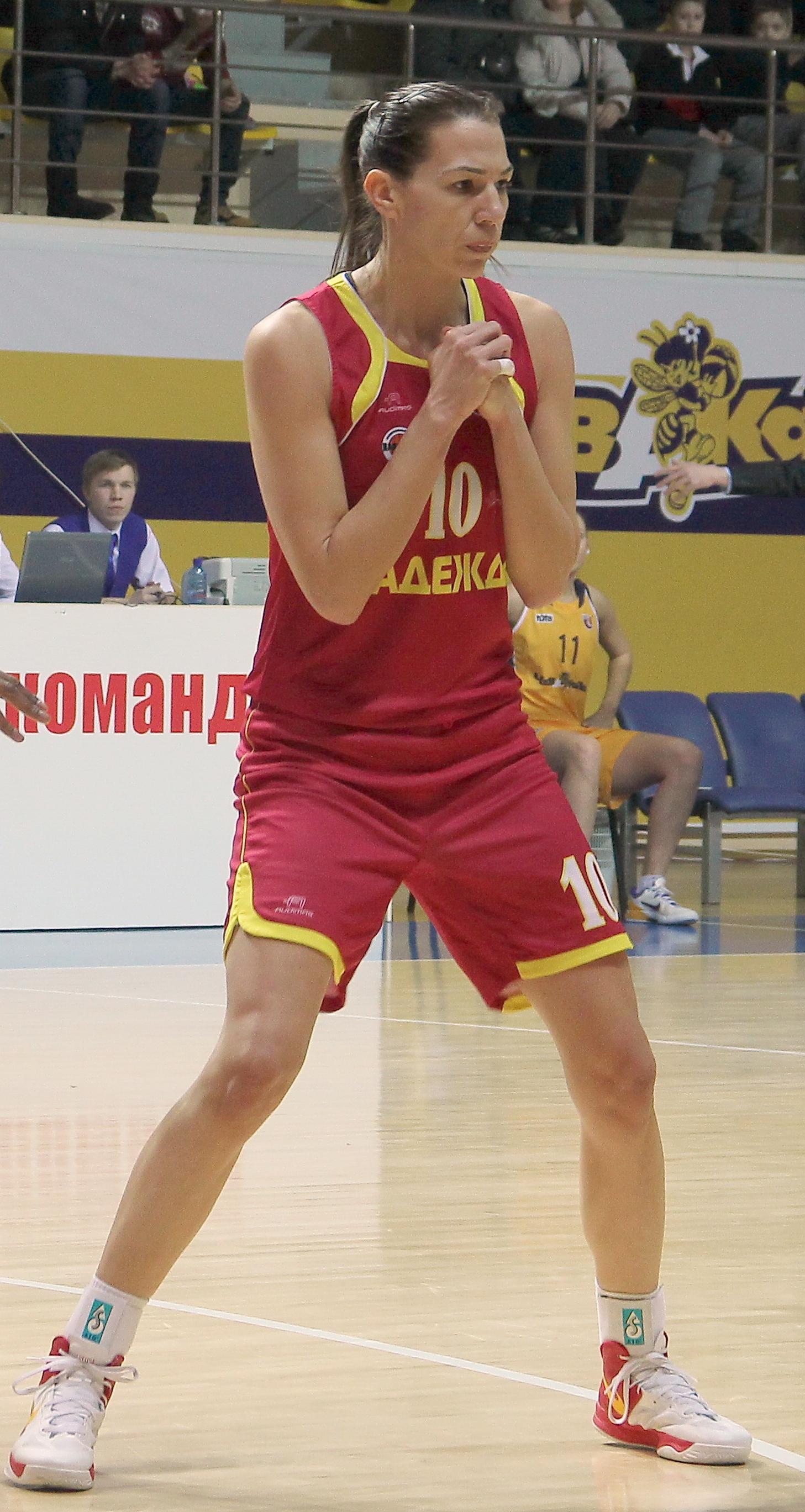 Russia, Vologda, Glory Johnson vs Iva Perovanović in game «Vologda-Chevakata» vs «Nadezhda» (Orenburg)